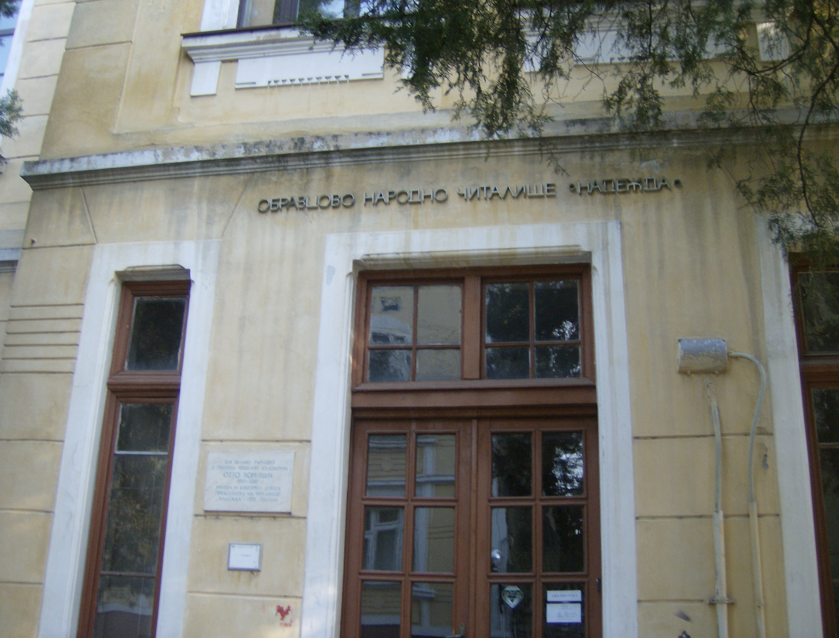 Chitalishte Nadezda, Veliko Turnovo